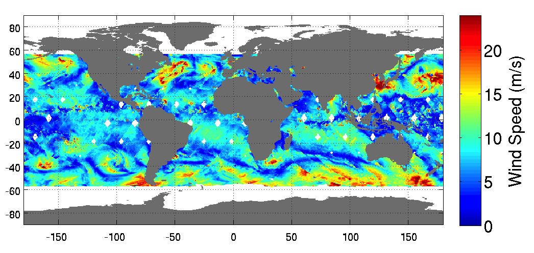 This composite image shows 48 hours of global ocean wind speeds recorded by ISS-RapidScat on Oct. 11-12. White ocean areas indicate a lack of data. Typhoon Vongfong is the large red area at the right edge of the map.